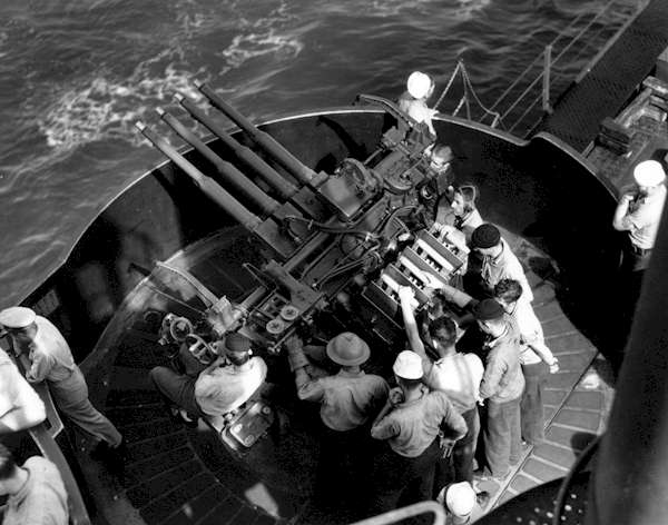 A quad 1.1"/75 cal Mk 1 anti-aircraft gun of the aft battery (behind superstructure) on USS Enterprise CV-6.